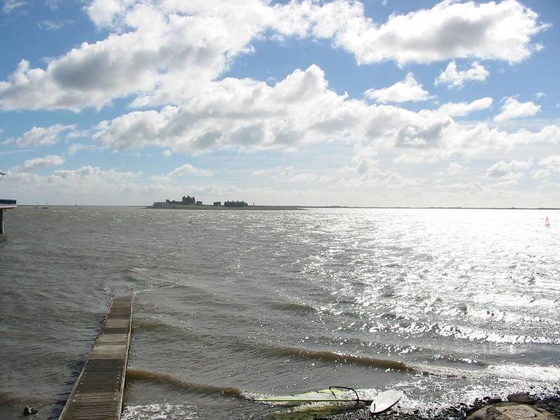 Piel Island from Roa Island on a day when it was too windy for the ferry to operate. Photograph by Stephen Dawson, 8 September 2001